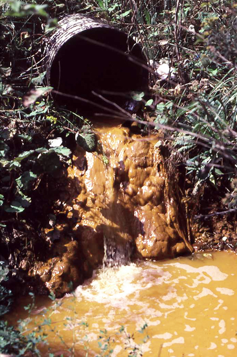 Ferrihydrite precipitate from coal mine water (pH ~6.8) at the outlet of a road culvert in Belmont Co., Ohio (USA). Source: Professor Jerry Bigham, Ohio State University.